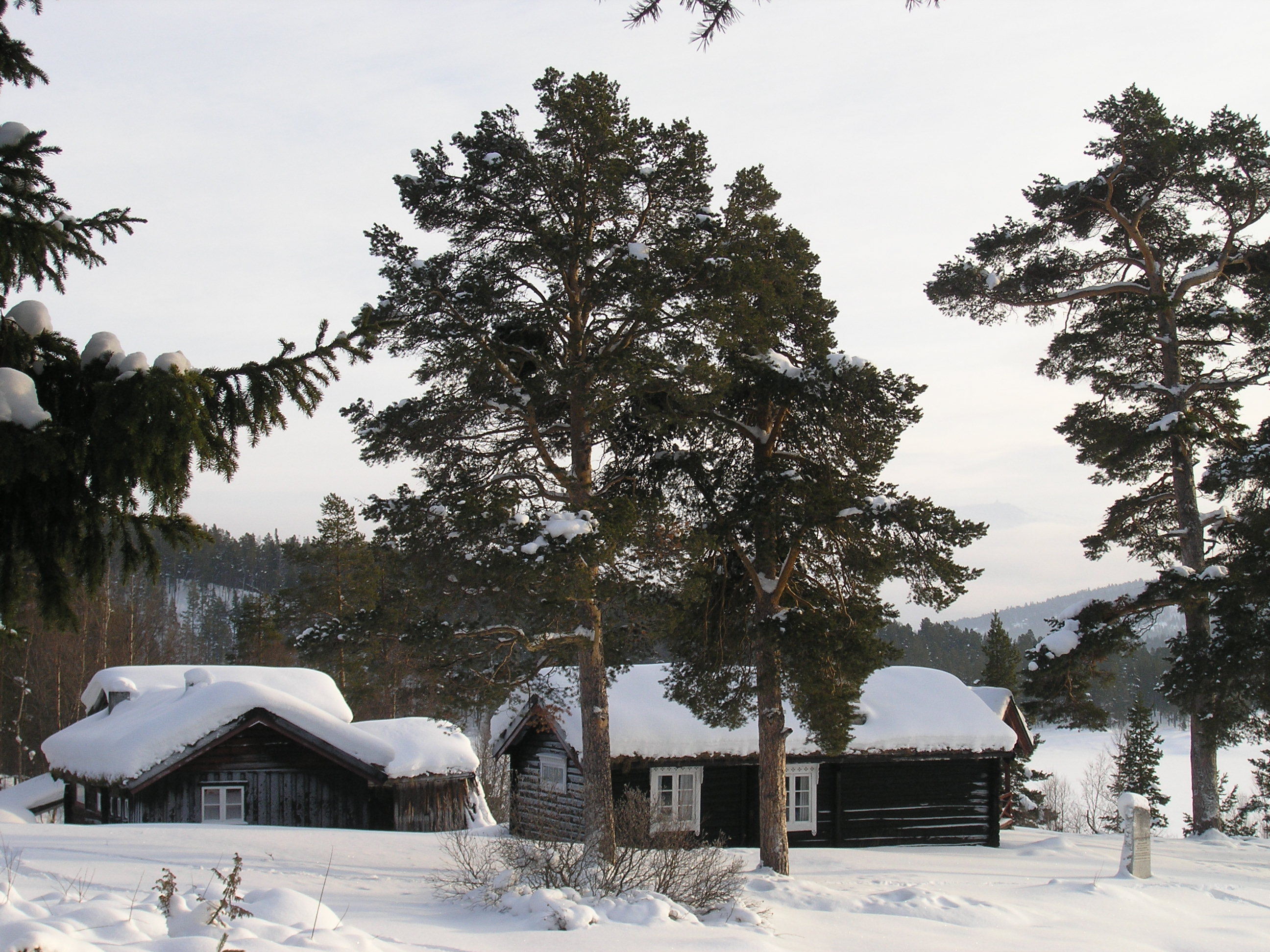 Arne and Hulda Garborg's home from 1885 to 1896.